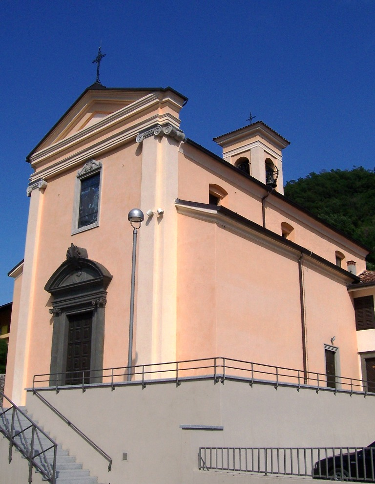 Church of St John the Baptist. Plemo, Esine, Val Camonica